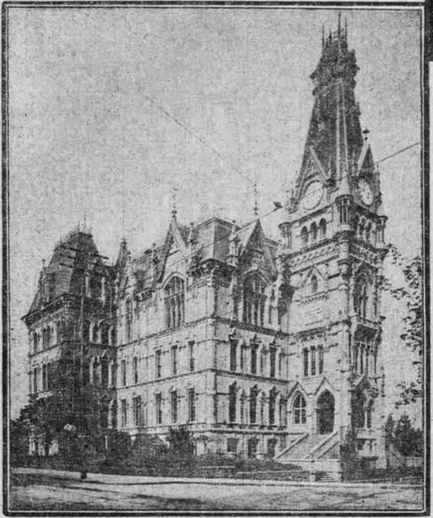 A photograph of Portland's West Side High School building, constructed in 1885 and demolished in 1930.